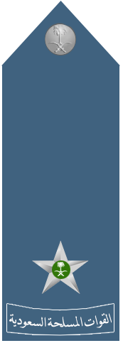 Royal Saudi Air Force -Pilot officer shoulder insignia